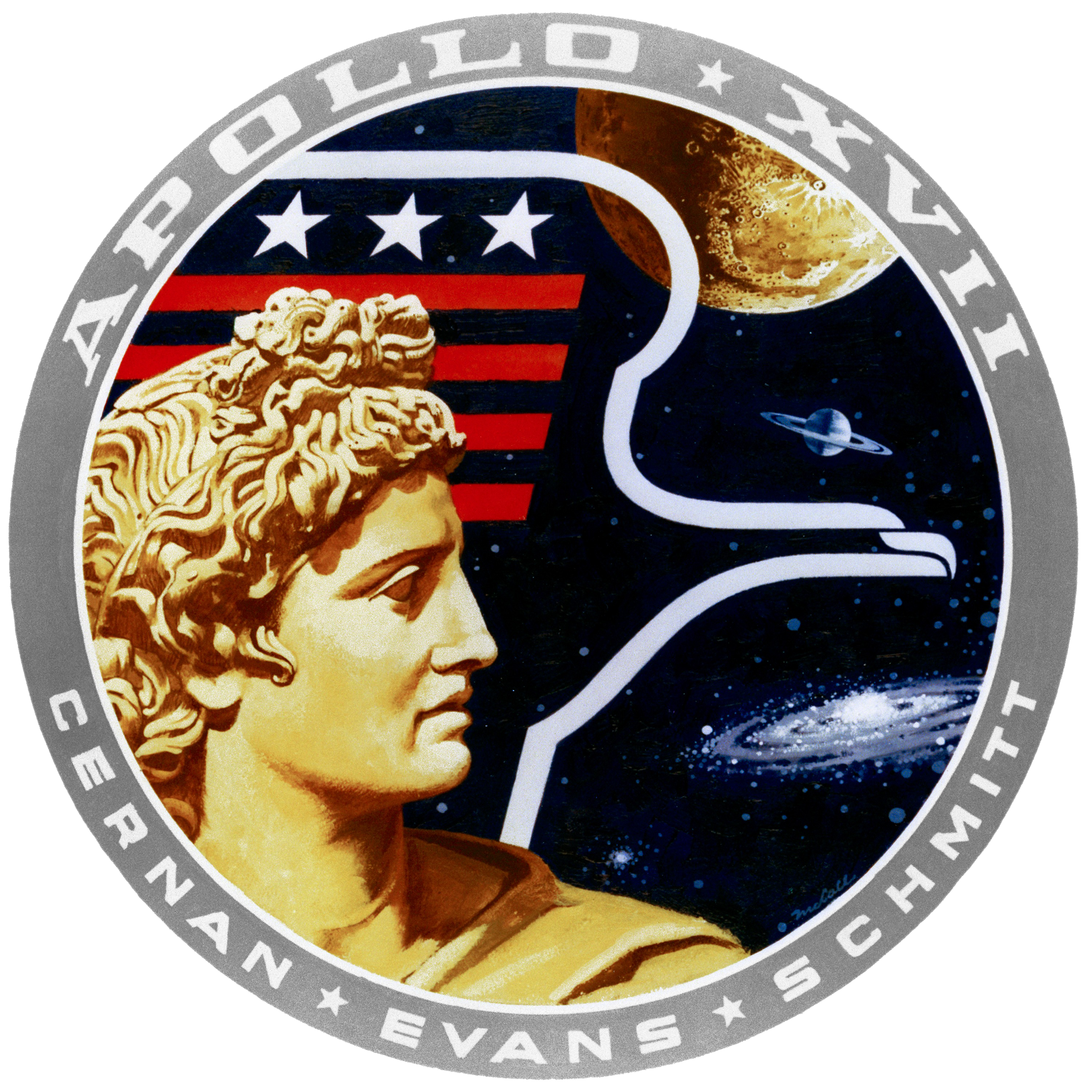 This is the official emblem of the Apollo 17 lunar landing mission which will be flown by astronauts Eugene A. Cernan, Ronald E. Evans and Harrison H. Schmitt. The insignia is dominated by the image of Apollo, the Greek sun god. Suspended in space behind the head of Apollo is an American eagle of contemporary design, the red bars of the eagle's wing represent the bars in the United States flag; the three white stars symbolize the three astronaut crewmen. The background is deep blue space and within it are the moon, the planet Saturn and a spiral galaxy or nebula. The moon is partially overlaid by the eagle's wing suggesting that this is a celestial body that man has visited and in that sense conquered. The thrust of the eagle and the gaze of Apollo to the right and toward Saturn and the galaxy is meant to imply that man's goals in space will someday include the planets and perhaps the stars. The colors of the emblem are red, white and blue, the colors of our flag; with the addition of gold, to symbolize the golden age of space flight that will begin with this Apollo 17 lunar landing. The Apollo image used in this emblem was the famous Apollo of Belvedere sculpture now in the Vatican Gallery in Rome. This emblem was designed by artist Robert T. McCall in collaboration with the astronauts.